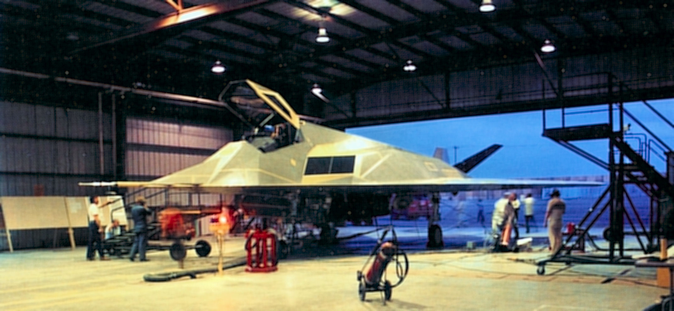 Lockheed F-117A Nighthawk 79-10780 in hangar just before the first flight of an F-117, June 1981